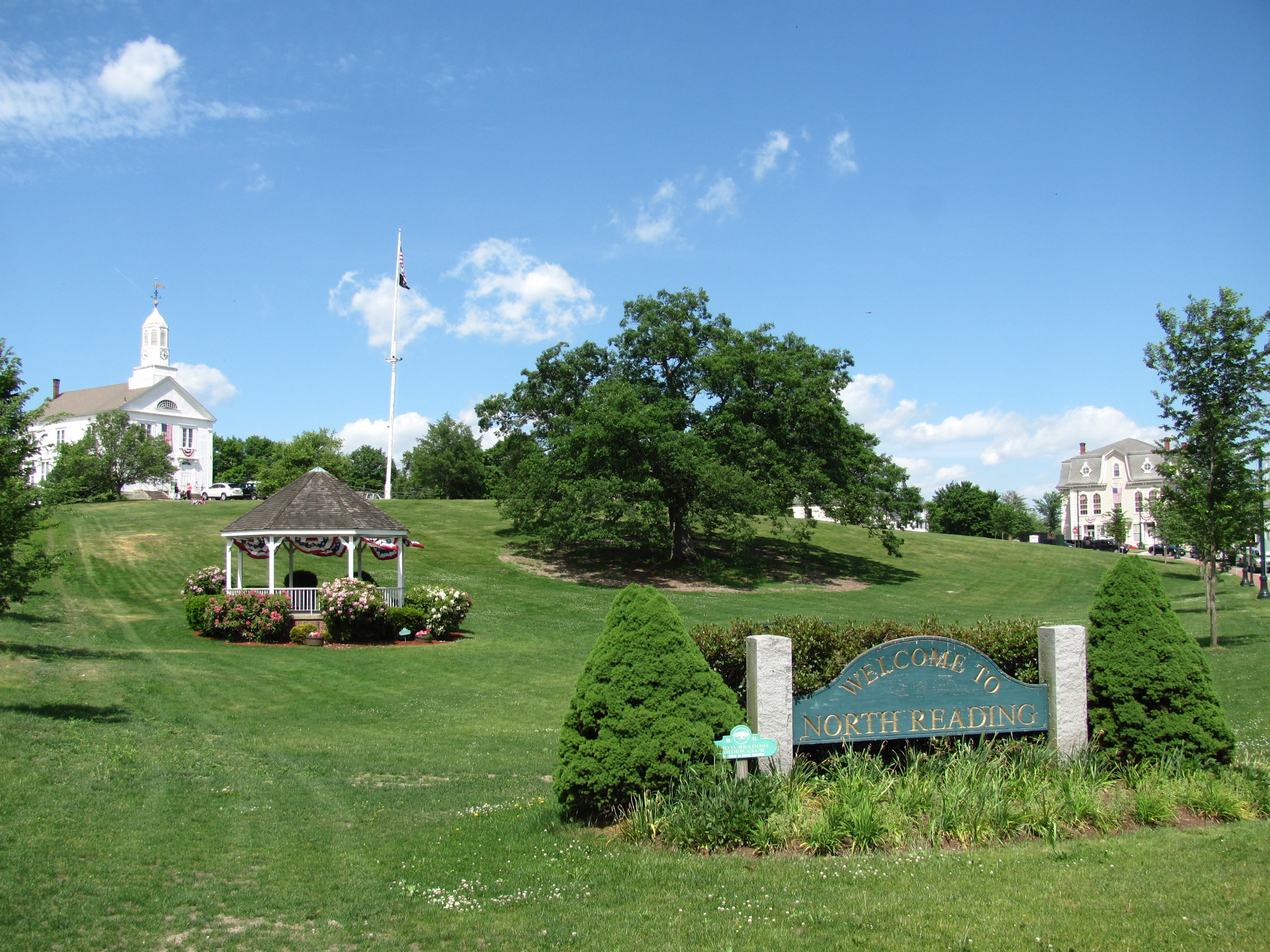 North Reading Common, North Reading Massachusetts - Third Meeting house is up the hill on the left, Flint Memorial Library is across the Common to the right